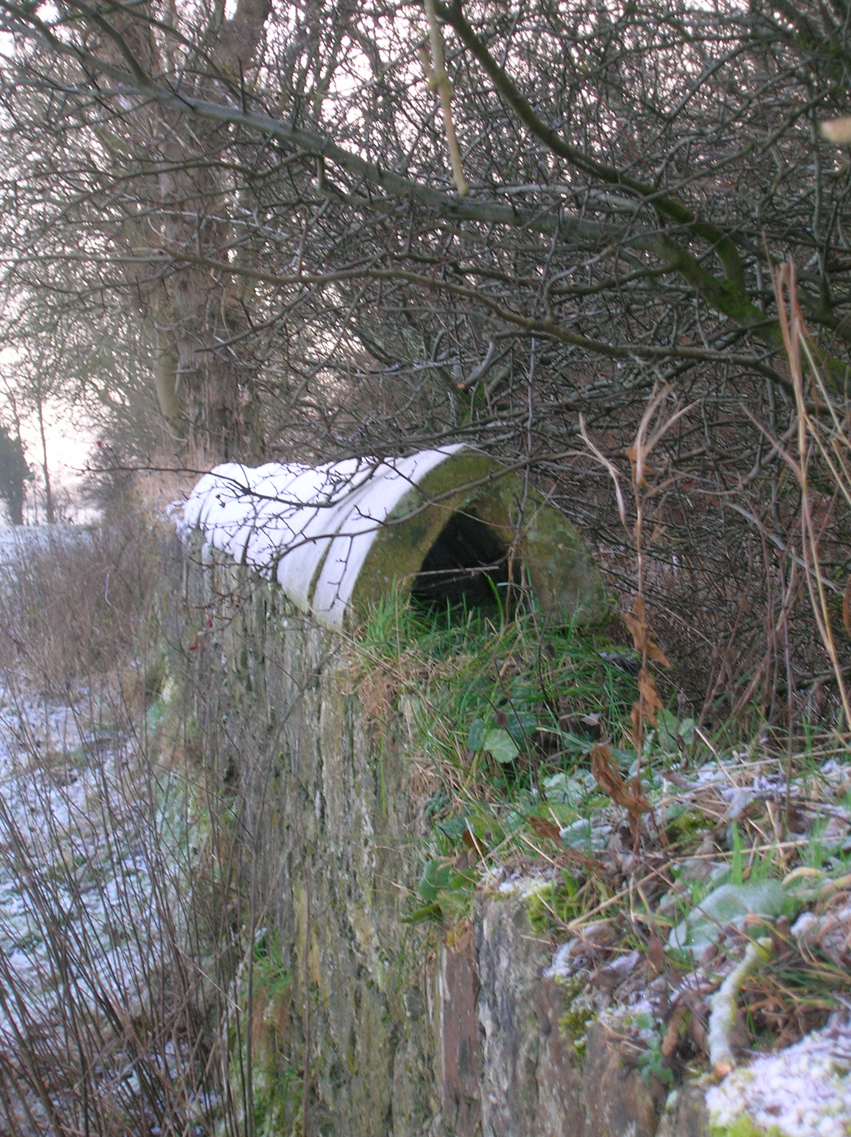 A section of the old deer park wall at Eglinton Country Park, North Ayrshire, Scotland.